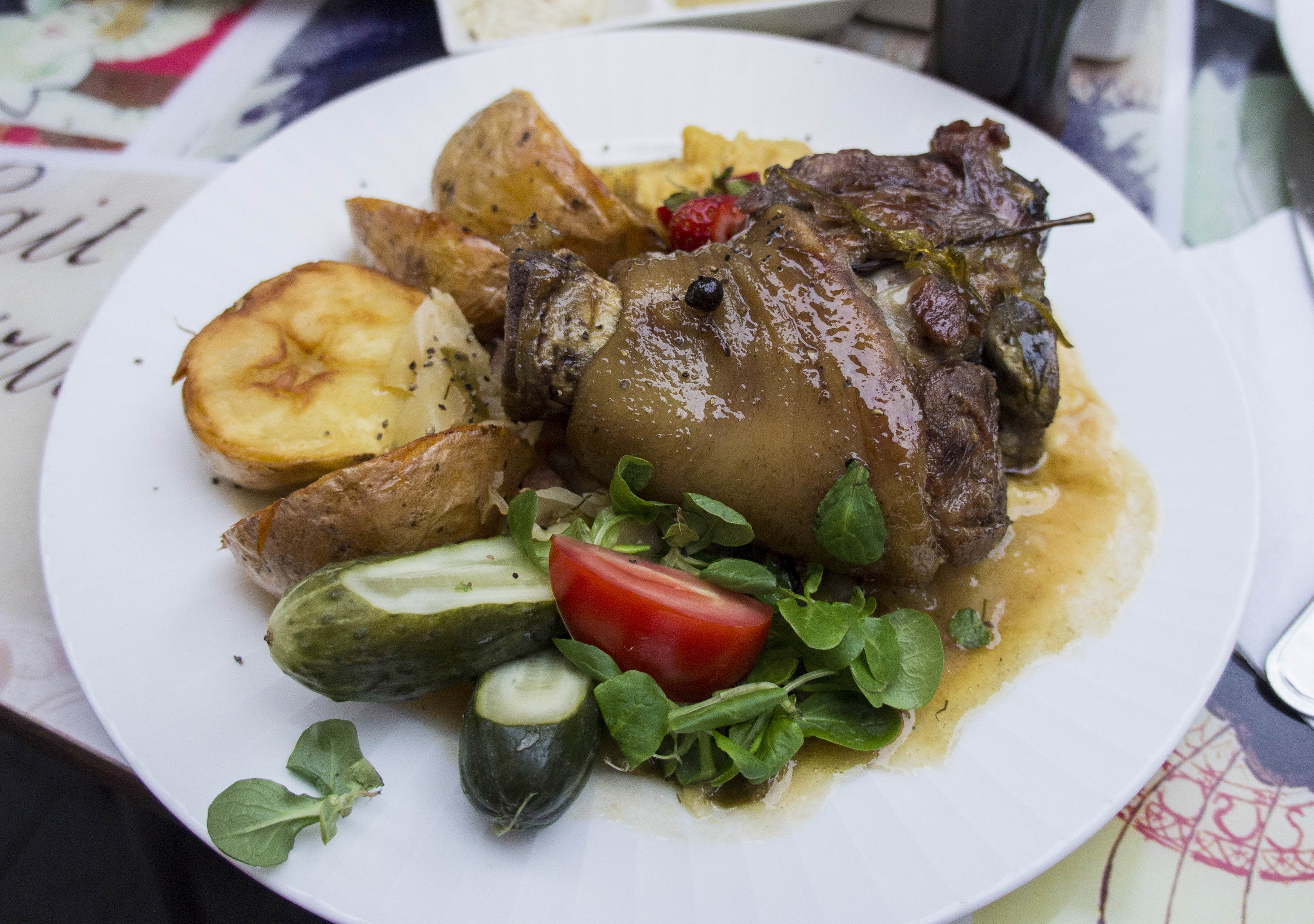 Galician golonka (Galician eisbein) as prepared in Warszaw, Poland.